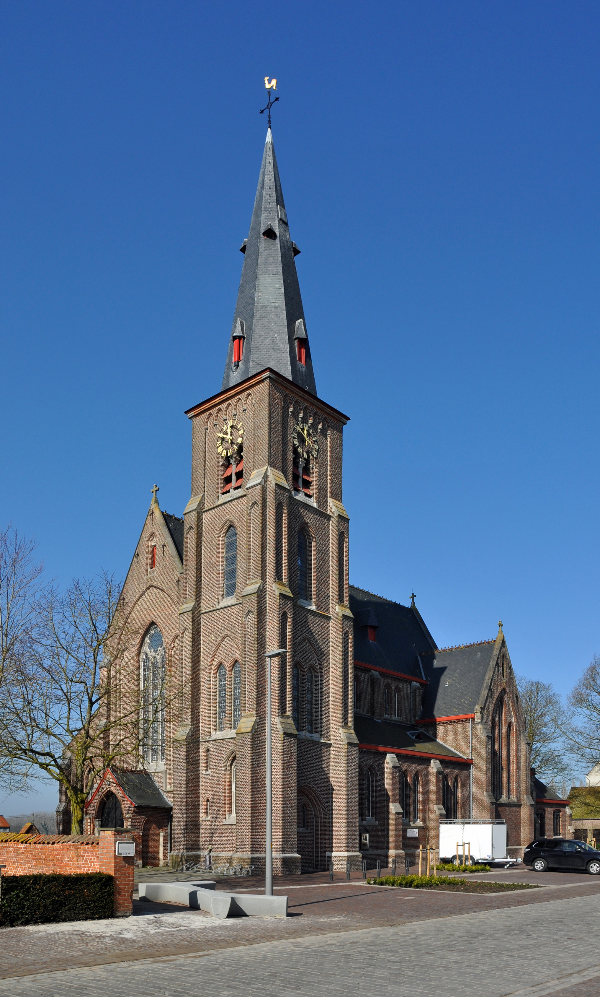 Donk (Maldegem, Belgium): St Joseph's church